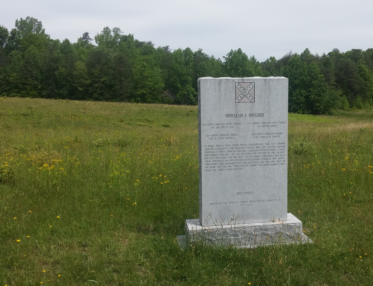 Ramseur's monument at Spotsylvania.